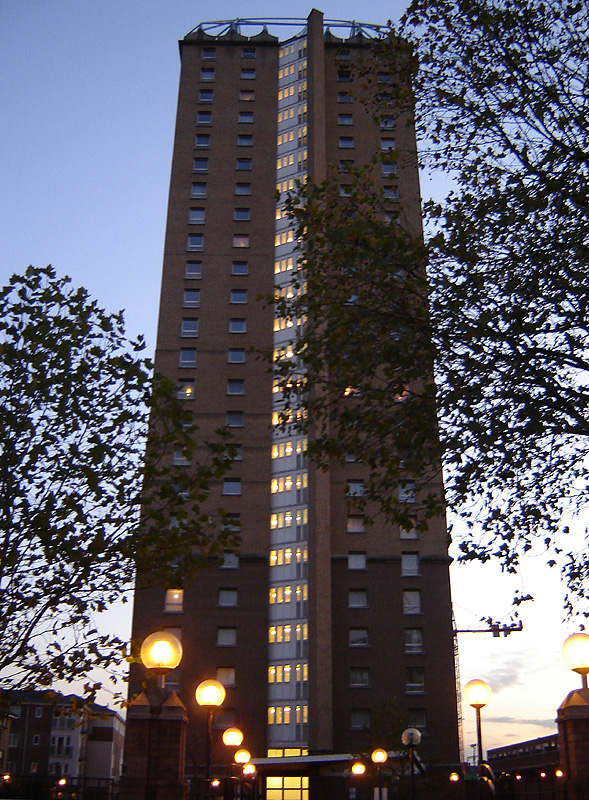 Winterton House, Stepney, Tower Hamlets, London. 28 November 2005. Photographer: Fin Fahey.